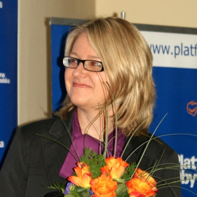 Polish presidential election 2010. Election's Results Night, Poznań. Agnieszka Kozłowska-Rajewicz, posłanka na Sejm RP, szefowa Wielkopolskiego Sztabu Wyborczego Bronisława Komorowskiego.